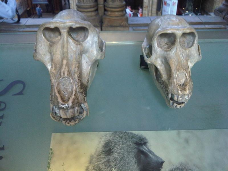 Male and female Olive baboon, also called the Anubis baboon (Papio anubis) skulls at the Natural History Museum in London, England.